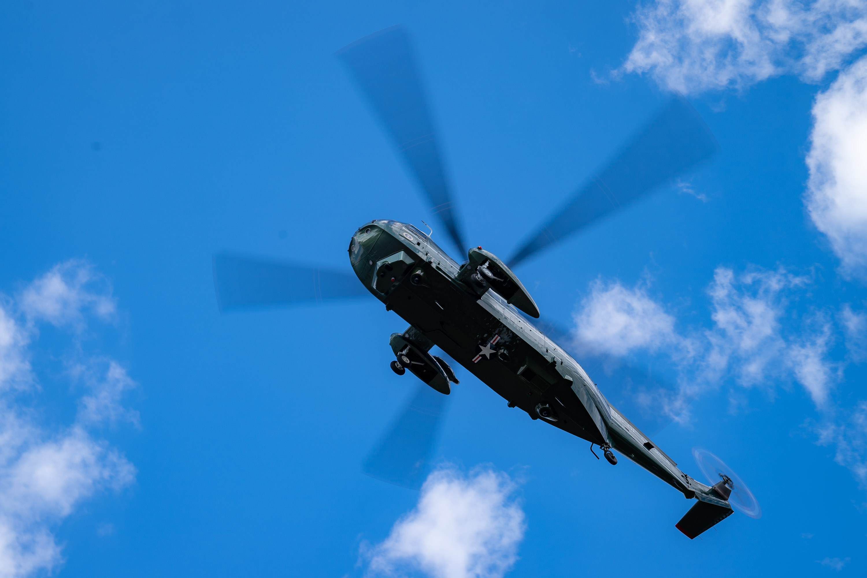 Marine One, with President Donald J. Trump aboard, prepares to land at National Harbor Saturday, Feb. 29, 2020, in Oxon Hill, Md. (Official White House Photo by Tia Dufour)